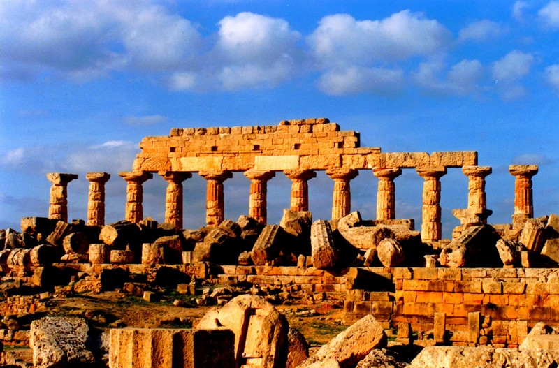 Greek temple in Selinunt.